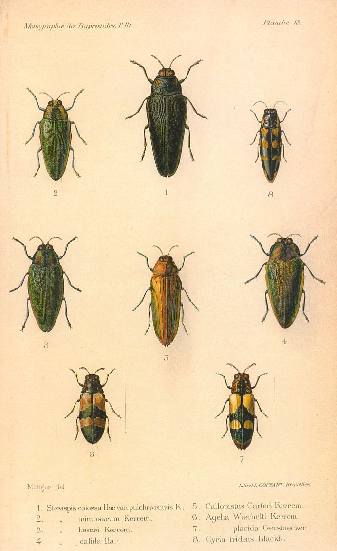 Steraspis colossa Har. var. pulchriventris K. = Steraspis colossa Harold, 1878 var. pulchriventris Steraspis mimosarum Kerrem. = Steraspis mimosarum Kerremans, 1907 Steraspis Lesnei Kerrem. = Steraspis lesnei Kerremans, 1908 Steraspis calida Har. = Steraspis calida Harold, 1878 Callopistus Carteri Kerrem. = Eucallopistus carteri (Kerremans, 1908) Agelia Wiechelti Kerrem. = Agelia petelii (Gory, 1840) Agelia placida Gerstaecker = Agelia lordi (Walker, 1871) Cyria tridens Blackb. = Cyrioides australis (Boisduval, 1835)